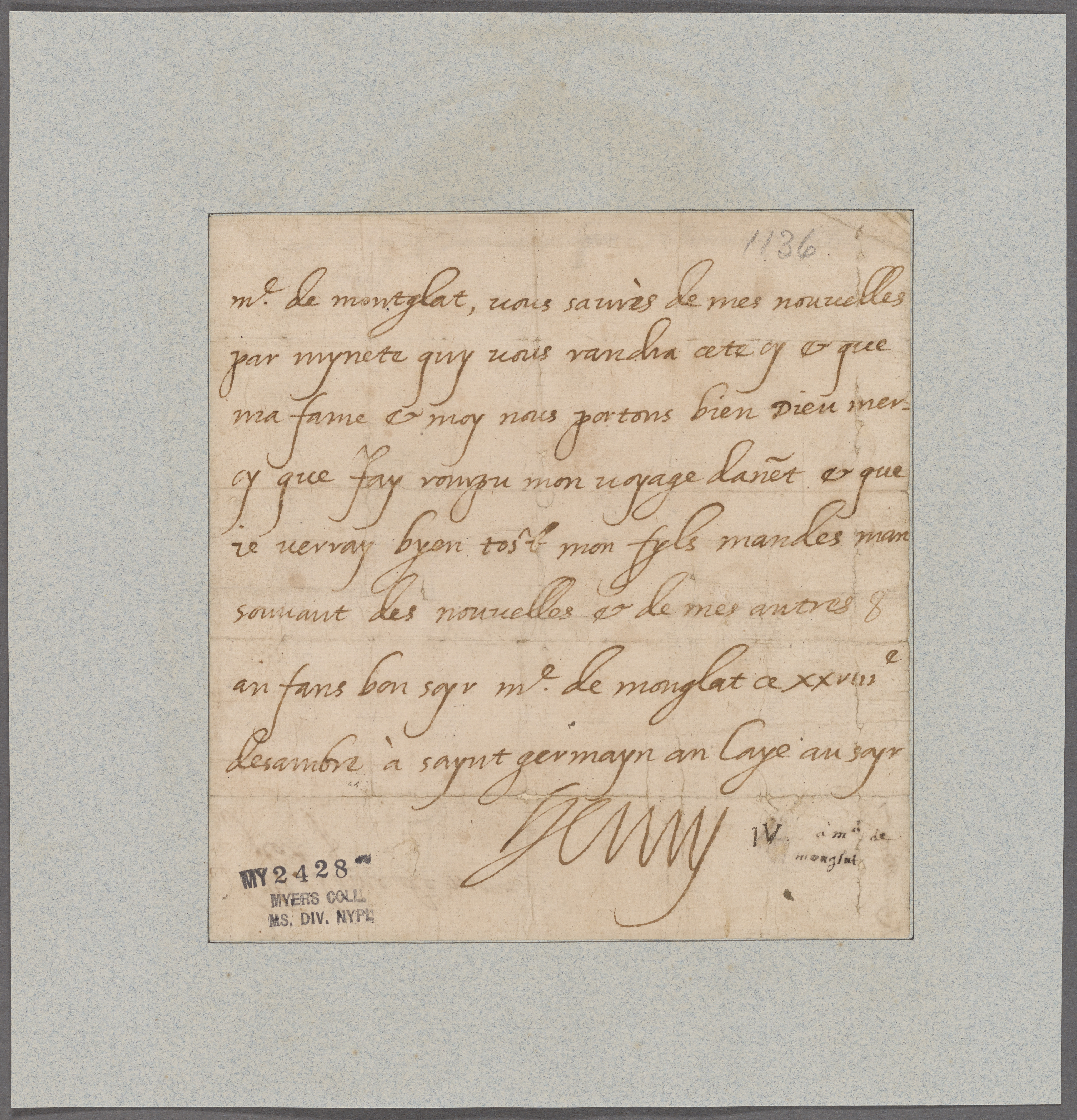 Digitization was made possible by a lead gift from The Polonsky Foundation.